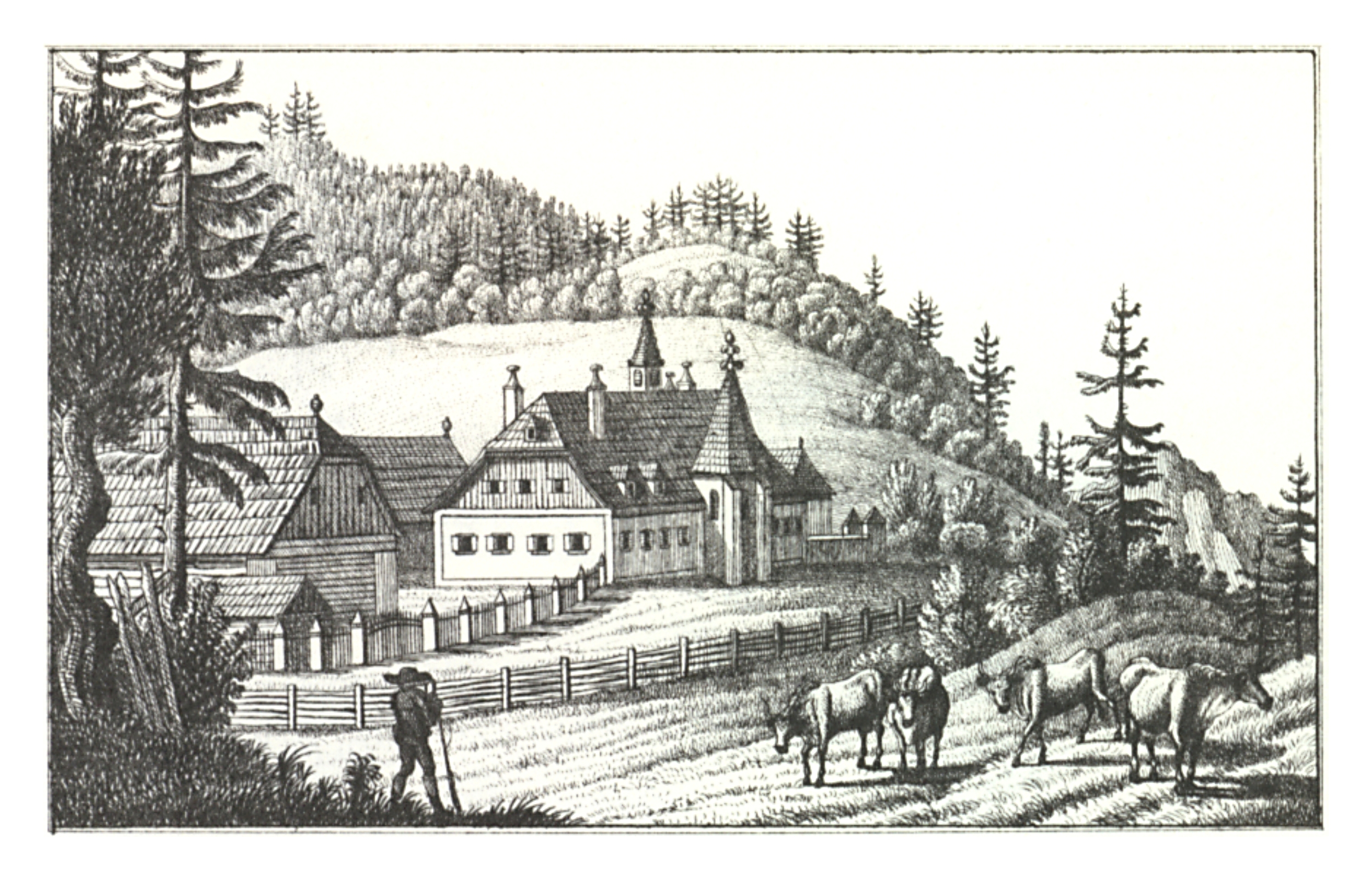 J. F. Kaiser - lithographirte Ansichten der Steyermärkischen Städte, Märkte und Schlösser Graz, 1825 Joseph Franz Kaiser (1786–1859) Alternative names J. F. KaiserDescriptionAustrian printer and editorDate of birth/death 11 March 1786 19 September 1859Location of birth/death Graz (Styria) GrazAuthority control : Q1499963 VIAF: 30629353 ISNI: 0000 0000 3083 0153 LCCN: n87141671 GND: 129880159 NLP: A24960305 WorldCat creator QS:P170,Q1499963 Scanprojekt Community Projektbudget 2012 This scan or this PDF-file was created within the GLAM-project Bookscanning, supported by Wikimedia Germany and Wikimedia Austria as a part of the community-project to capture books, documents and pictures which are not eligible to copyright or for which the copyright has expired. This document describes or depicts an object which is located in Austria today. Send requests for uncompressed scans to Hubertl. This work is in the public domain in its country of origin and other countries and areas where the copyright term is the author's life plus 100 years or fewer. You must also include a United States public domain tag to indicate why this work is in the public domain in the United States. This file has been identified as being free of known restrictions under copyright law, including all related and neighboring rights.